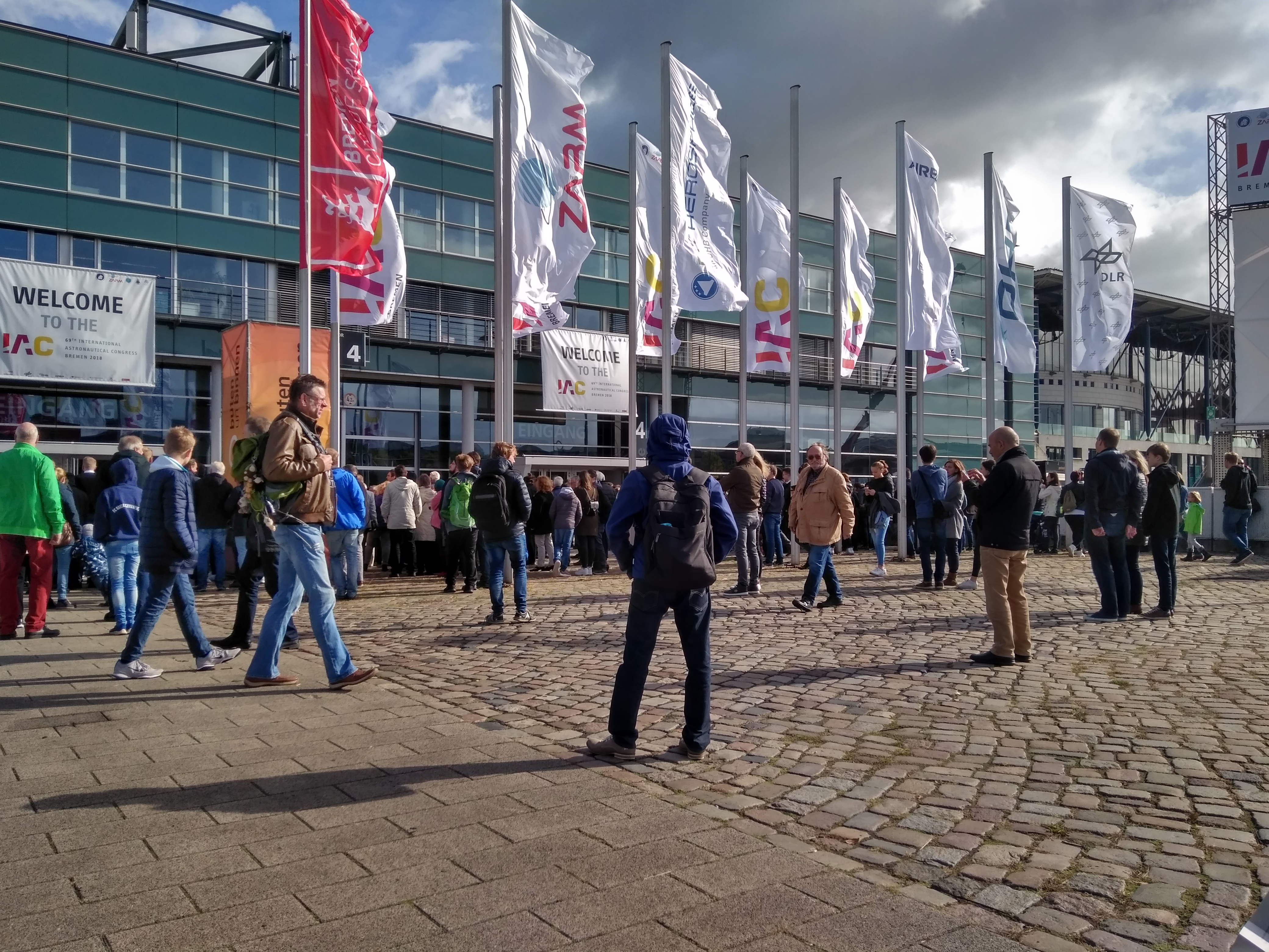 Public Day of the 69th International Astronautical Congress in Bremen, Germany